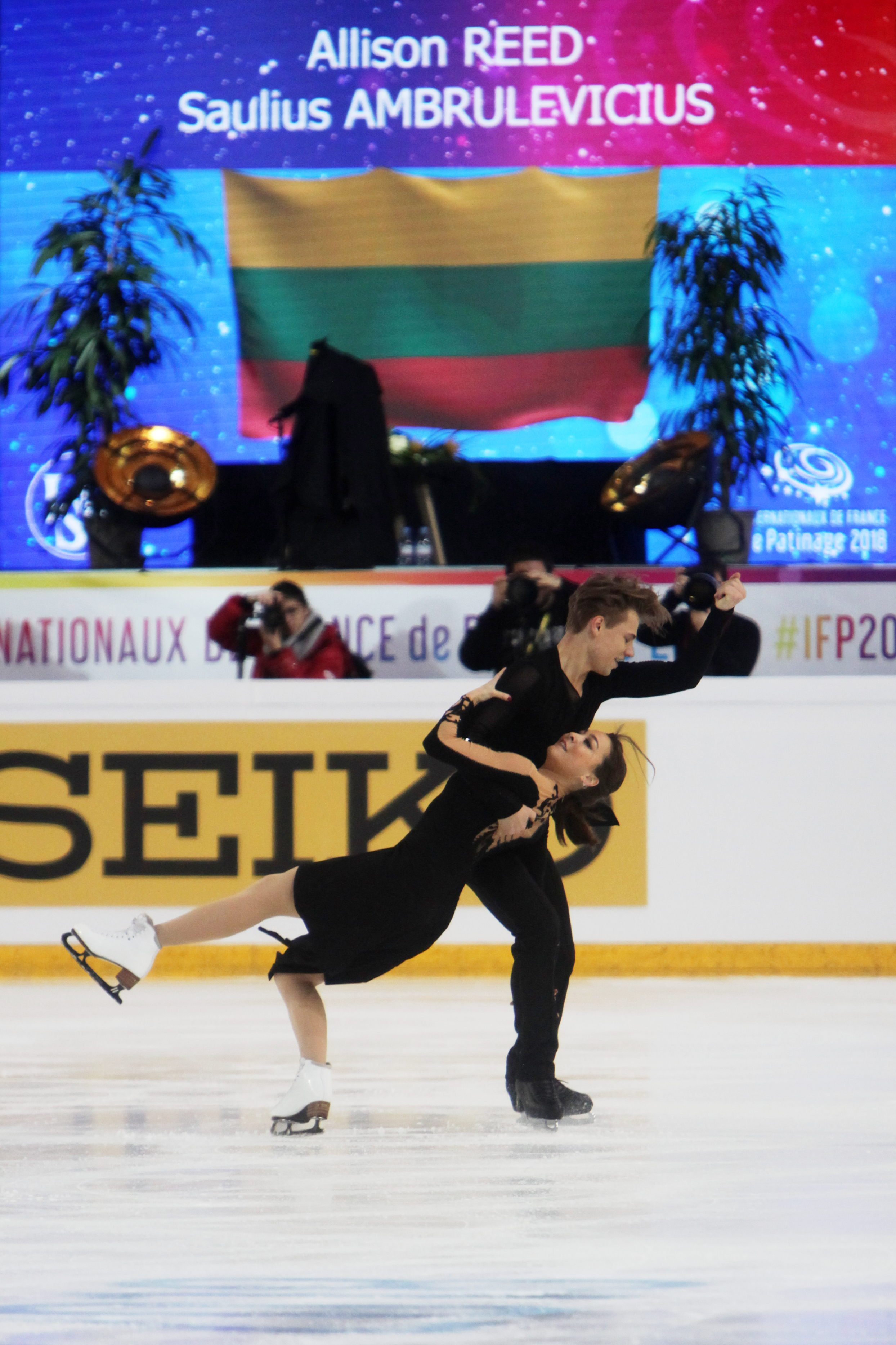 Allison Reed and Saulius Ambrulevičius during the Free Dance at the Internationaux de France de Patinage 2018.